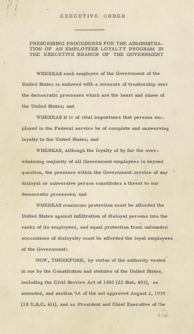 First page of Executive Order 9835 instituting loyal review programs for all federal employees